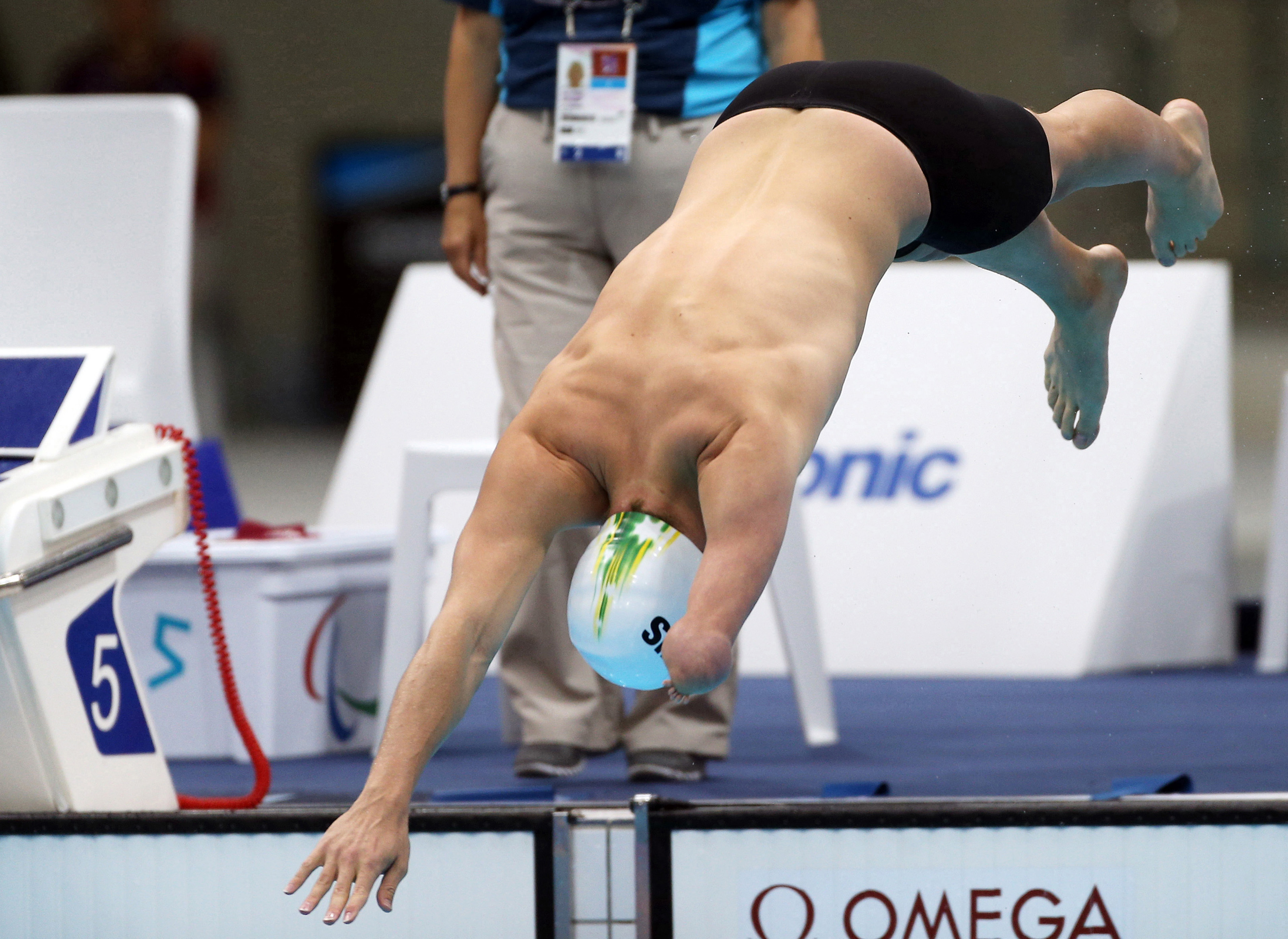 Photograph of Australian Paralympic team member Matthew Cowdrey at the 2012 Summer Paralympic Games in London